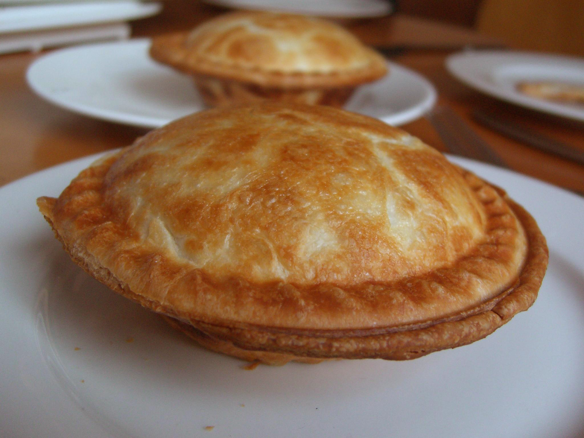 Homemade curry chicken pot pies.